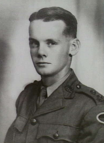 AWM caption: "1941-01. LT. IVAN (sic) JOHN MACKAY SON OF MAJ. GEN. I.G. MACKAY.".